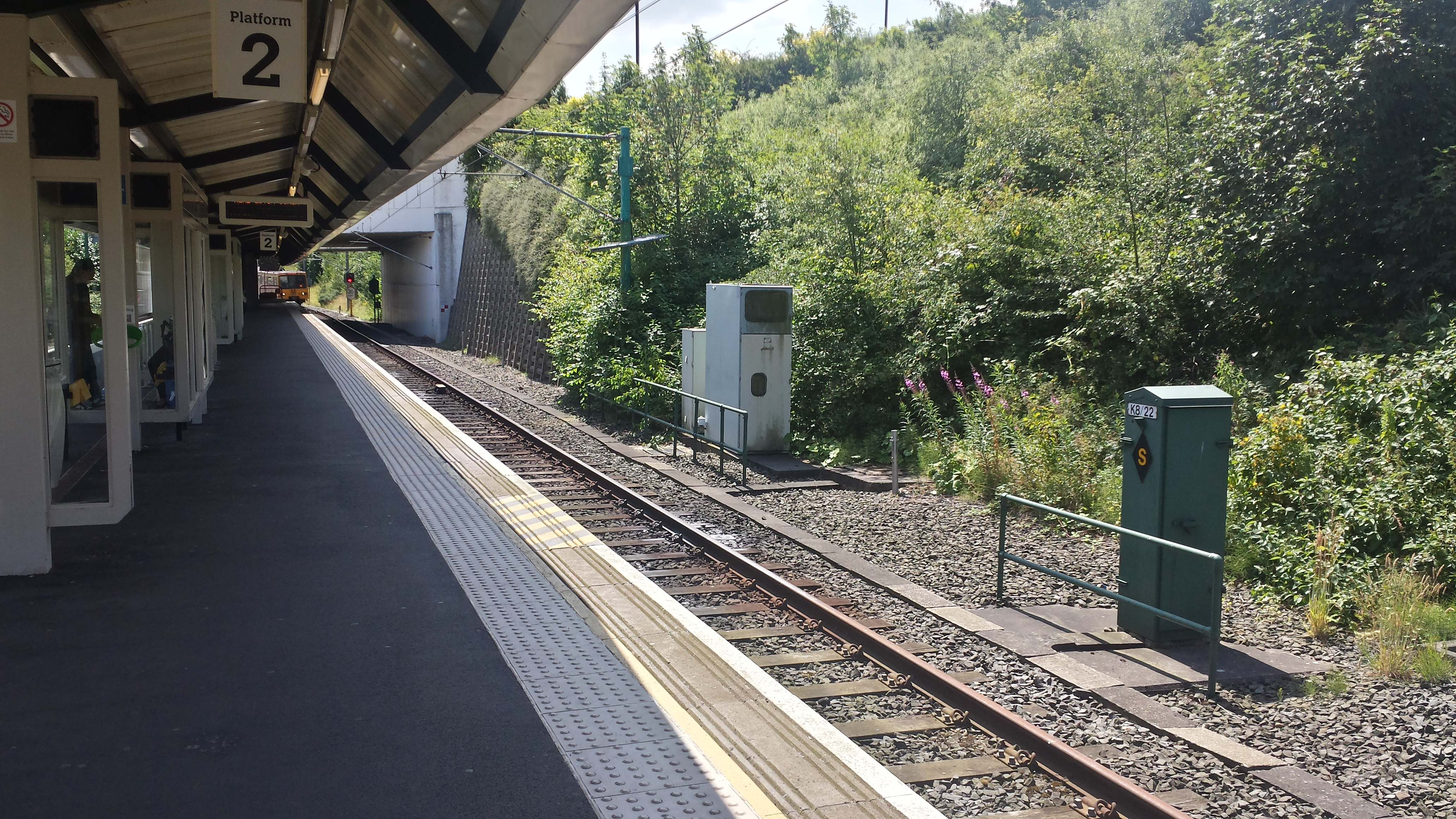 An image of the Tyne and Wear Metro station at Newcastle Airport.